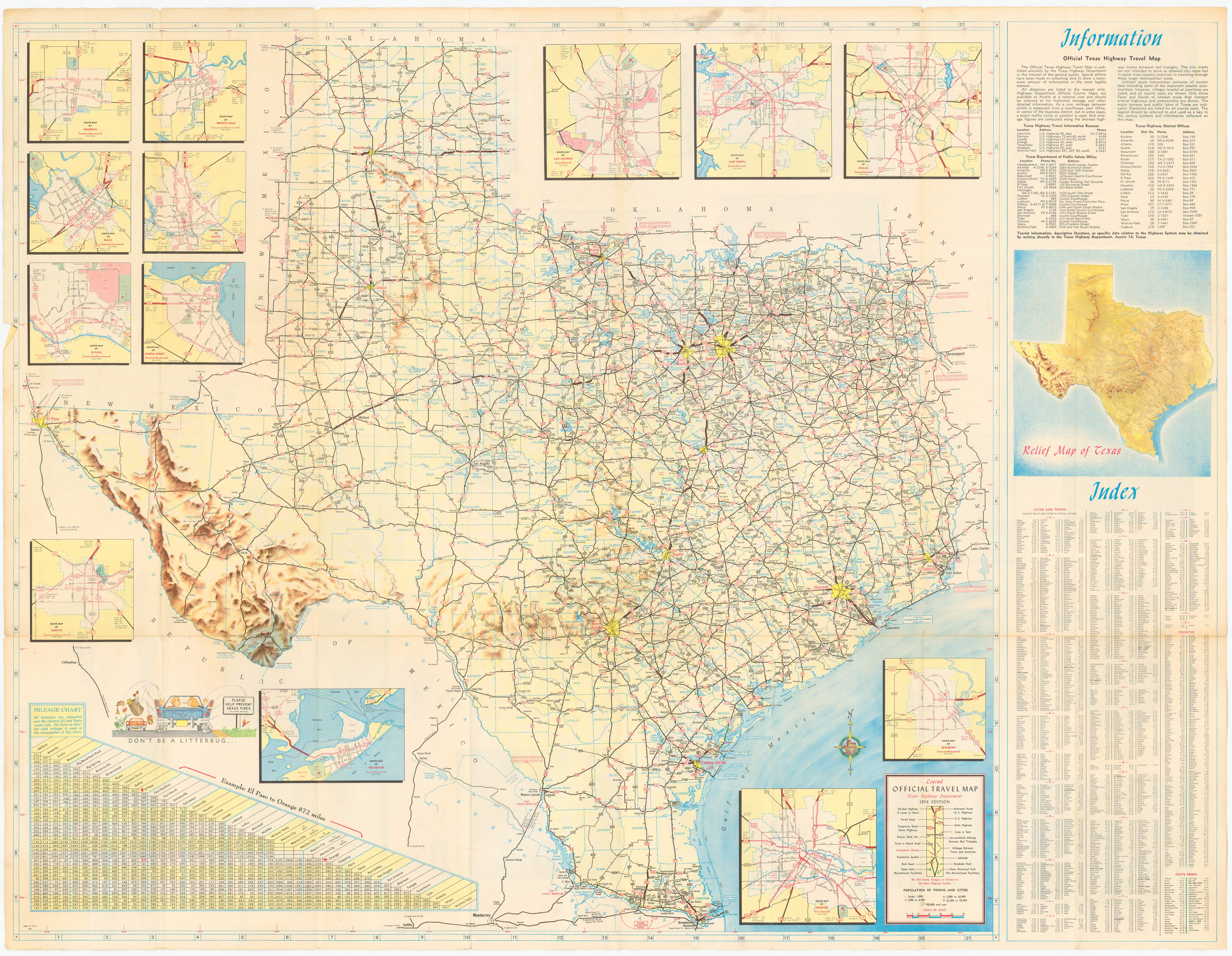 The 1956 edition of the Texas Highway Department published Official Travel Map. The Interstate Highway System is not present on the map as it had not been created yet. Route 66 travels through the panhandle region. In addition to Texas, inset maps of Amarillo, Wichita Falls, Waco, Austin, El Paso, Corpus Christi, Lubbock, Galveston, Houston, Beaumont, Dallas, Fort Worth, and San Antonio.